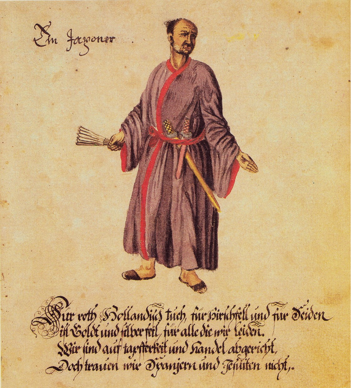 Portrait of a Japanerse by Schmalkalden. The inscription reads (approximate translation): A